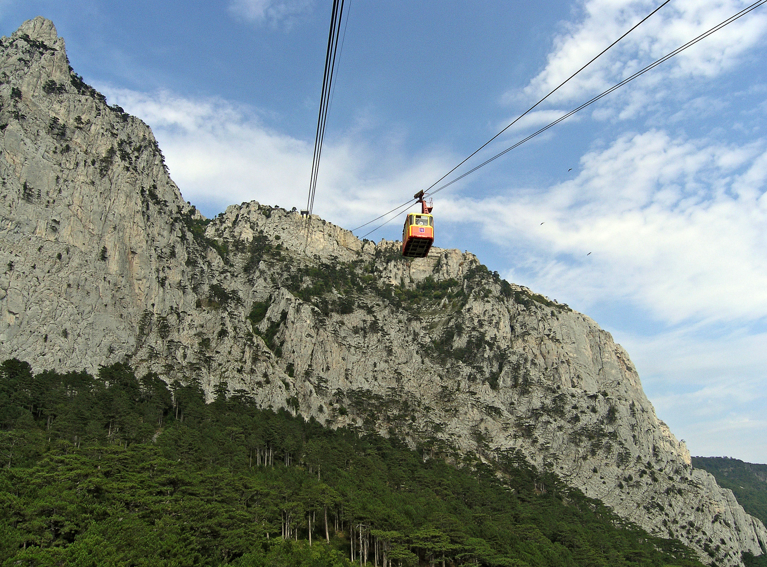 Crimean Mountain AjPetri with cablecar, near Yalta